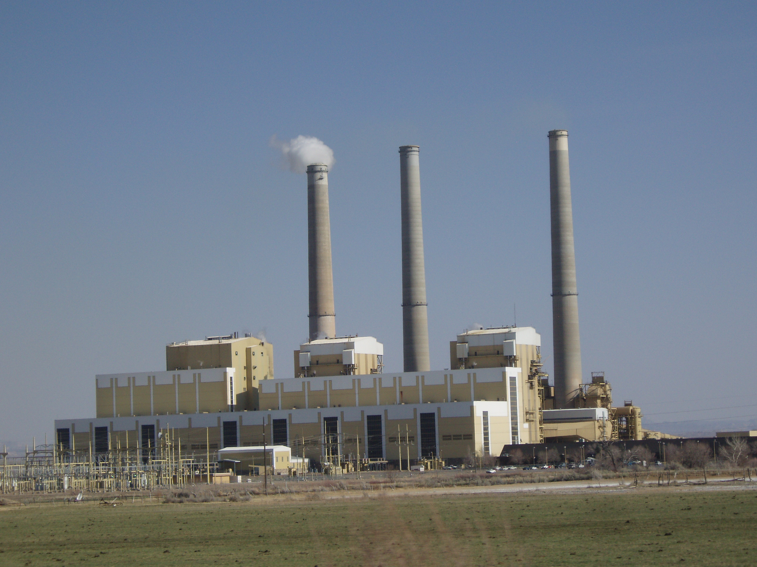 Hunter Power Plant, a coal-fired power plant just south of Castle Dale, Utah.